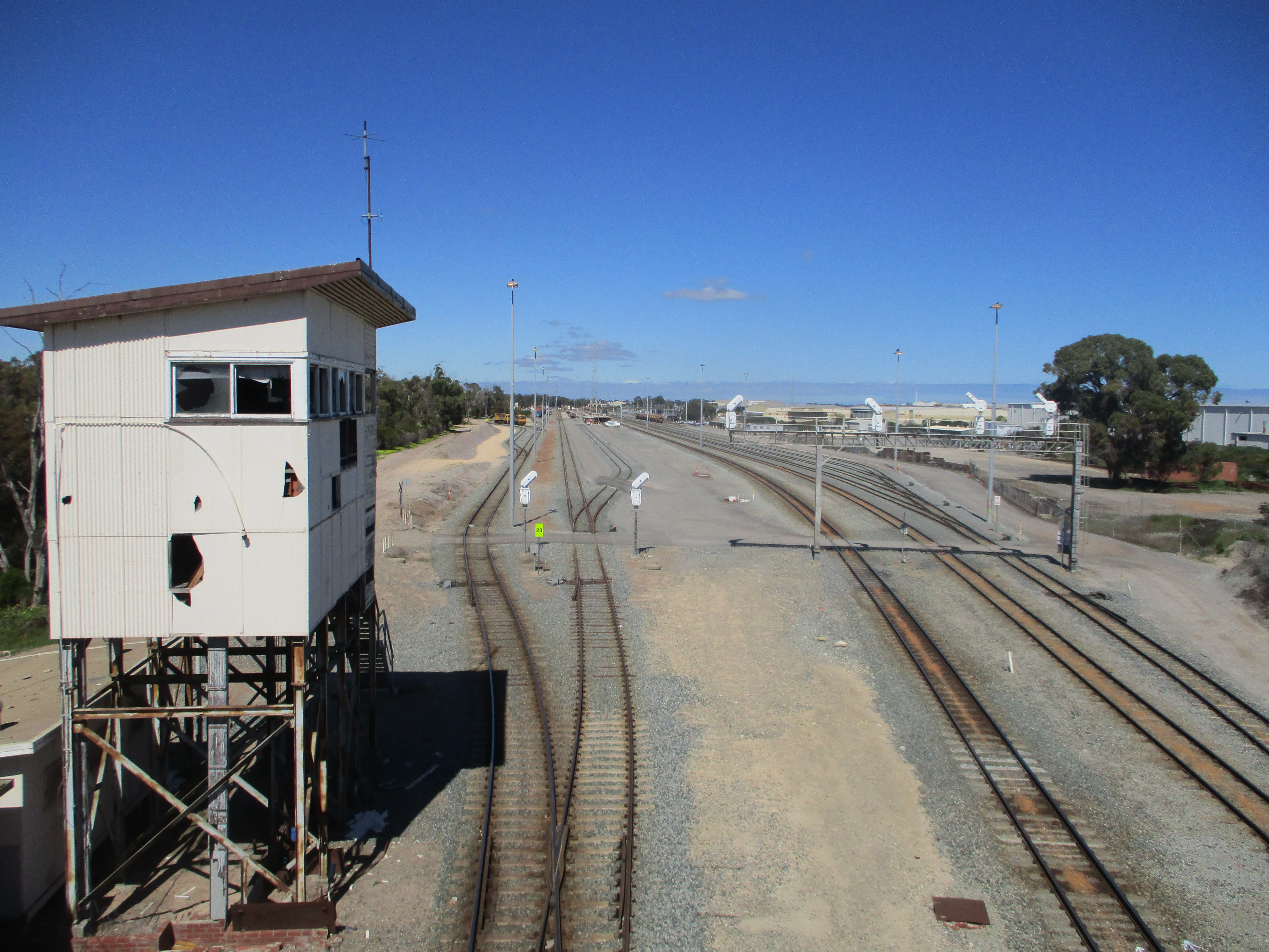 The Kwinana Beach Railway yard, Western Australia, seen from the rail overpass at Rockingham Road, looking south. The Kwinana Signal Box on the left is state heritage listed and operated from 1967 to 2002.